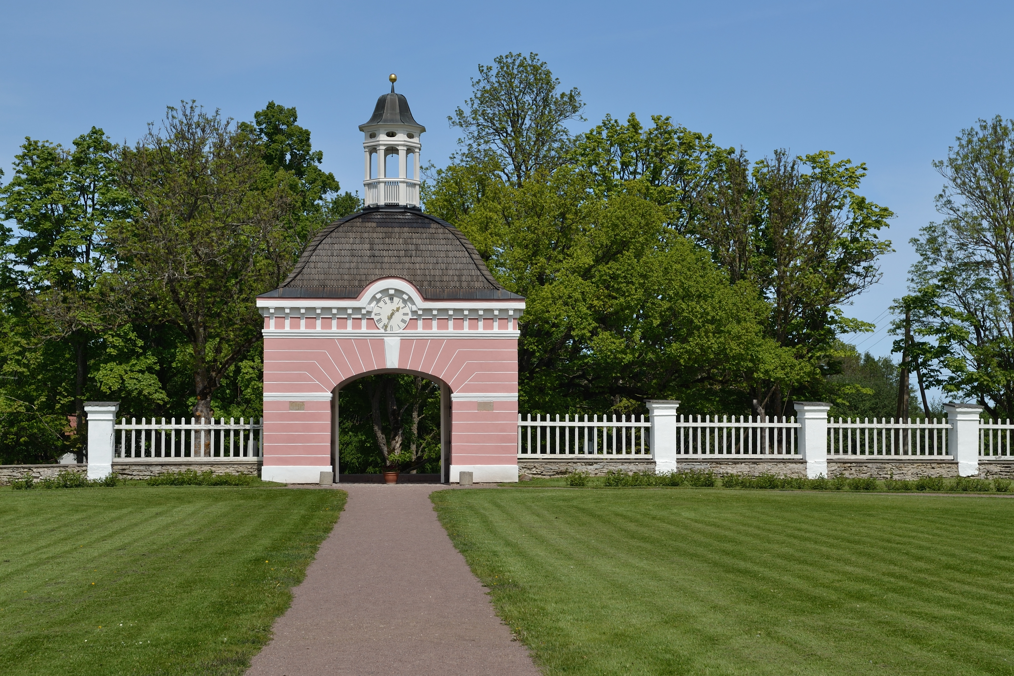 Sagadi manor gate building